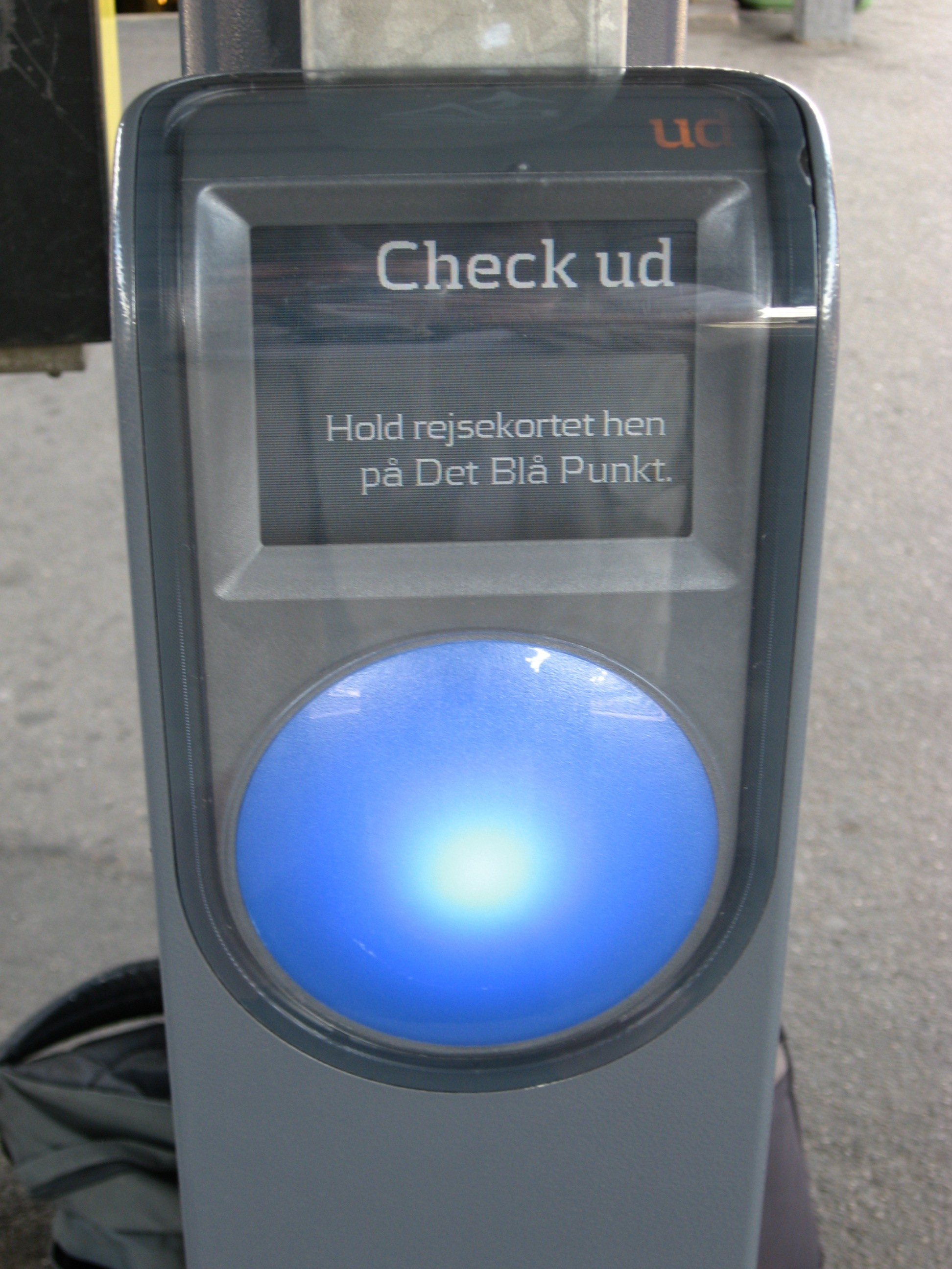 Rejsekort check-out validator in a Kobenhaven station